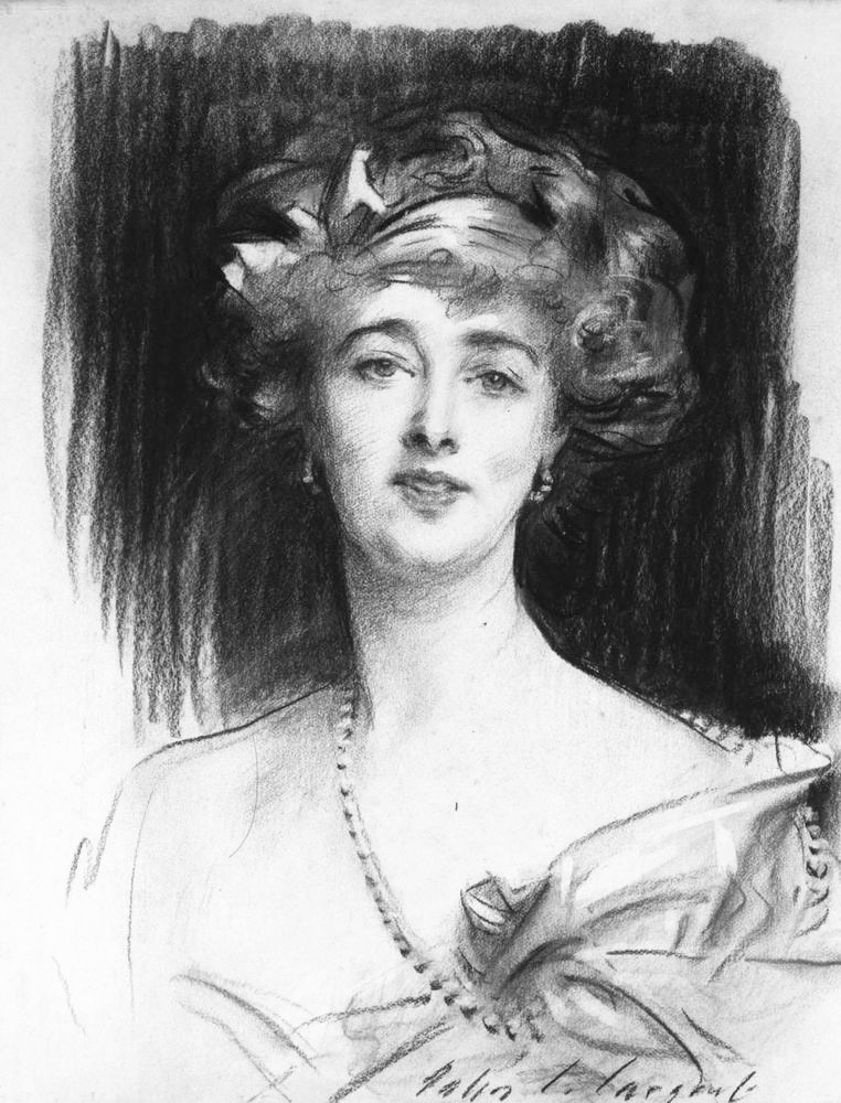 Daisy, Princess of Pless (1873-1943)